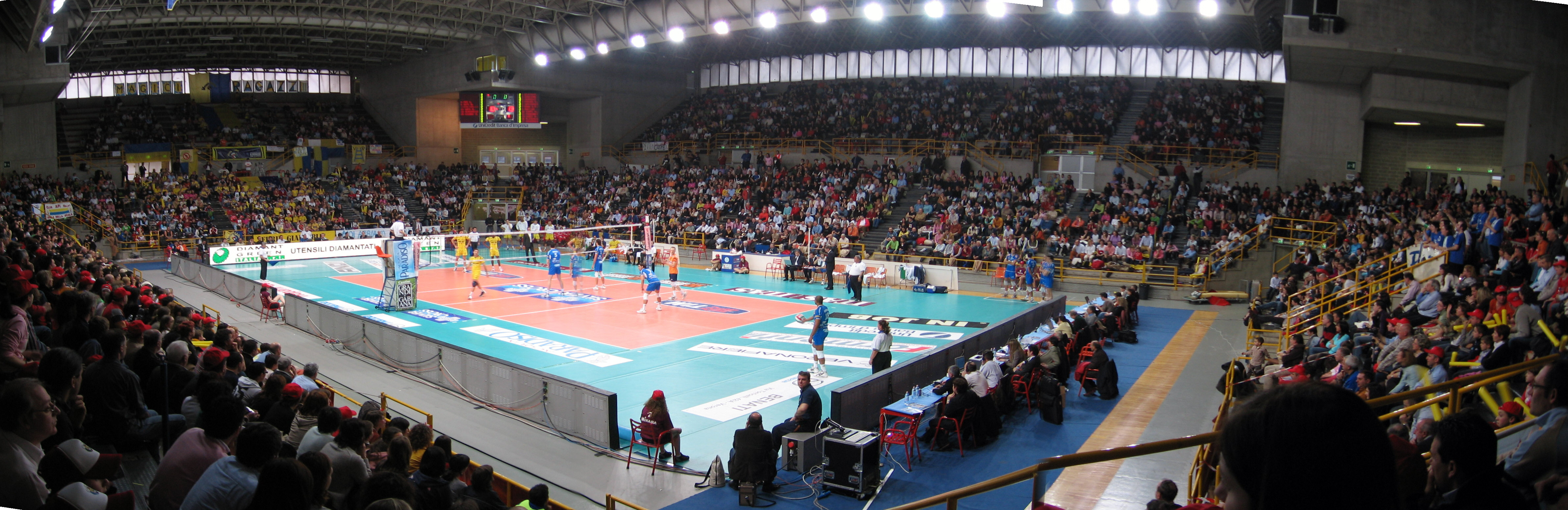 Marmi Lanza Verona vs. Bre Banca Lanutti Cuneo at Palaolimpia in Verona.